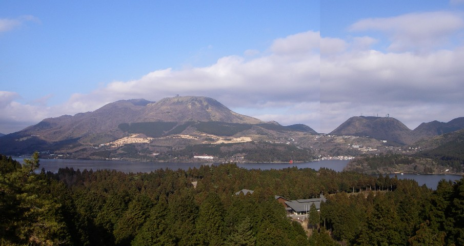 Central cones of Hakone volcano and Lake Ashi as seen from teh south in Japan.